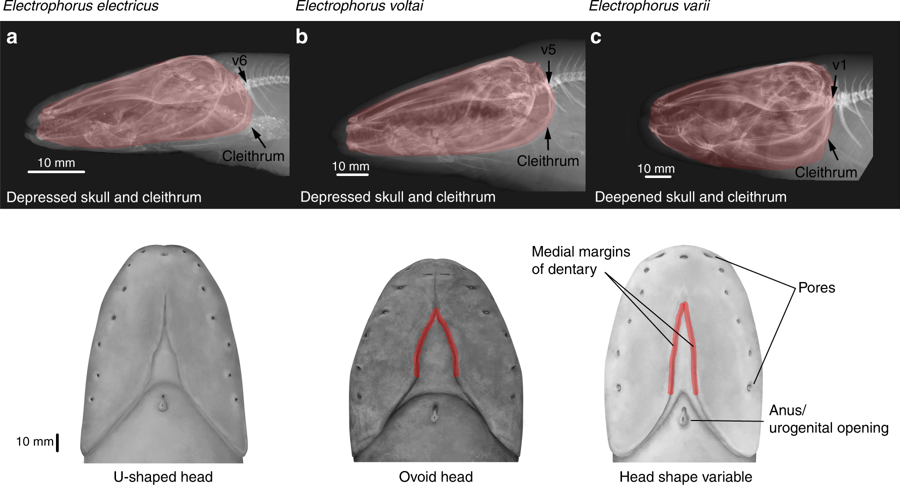 Key morphological features to recognize the three species of Electrophorus. Top, radiographs of lateral view of the anterior portion of body (skull and pectoral girdle highlighted red). The cleithrum lies between the fifth and sixth vertebrae (v) in Electrophorus electricus (a) and E. voltai (b) versus first and second vertebrae in E. varii (c). Bottom, illustrations of ventral view of the head, showing key features listed in Diagnoses. a top: National Museum of Natural History, NMNH 403765, 300 mm TL, Cuyuni River, Guyana; bottom: NMNH 225576, 1000 mm TL, Corantijn River, Suriname. b top: Instituto Nacional de Pesquisas de Amazônia, INPA 39009, 450 mm TL, Teles Pires River, Brazil; bottom: Academy of Natural Sciences of Drexel University, ANSP 197583 (t3539), 1280 mm TL, Xingu River, Brazil. c top: NMNH 306677, 450 mm TL, Lago Janauari, Amazon River, Brazil; bottom: NMNH 196634, 1220 mm TL, Amazon River, Brazil. Distinguished by head narrow, Fig. 2a (versus wide, Fig. 2b, in E. voltai; distance between medial margins of contralateral dentaries at transverse through last two ventral pores 2–3 times shorter in E. varii than E. voltai, Fig. 2a, b), skull deep, cleithrum lies between vertebrae 1 and 2, Fig. 2b (versus skull depressed, cleithrum lies between vertebrae 5 and 6, in both E. electricus and E. voltai Fig. 2a, c). From C. David de Santana et al 2019 (Revue Nature)